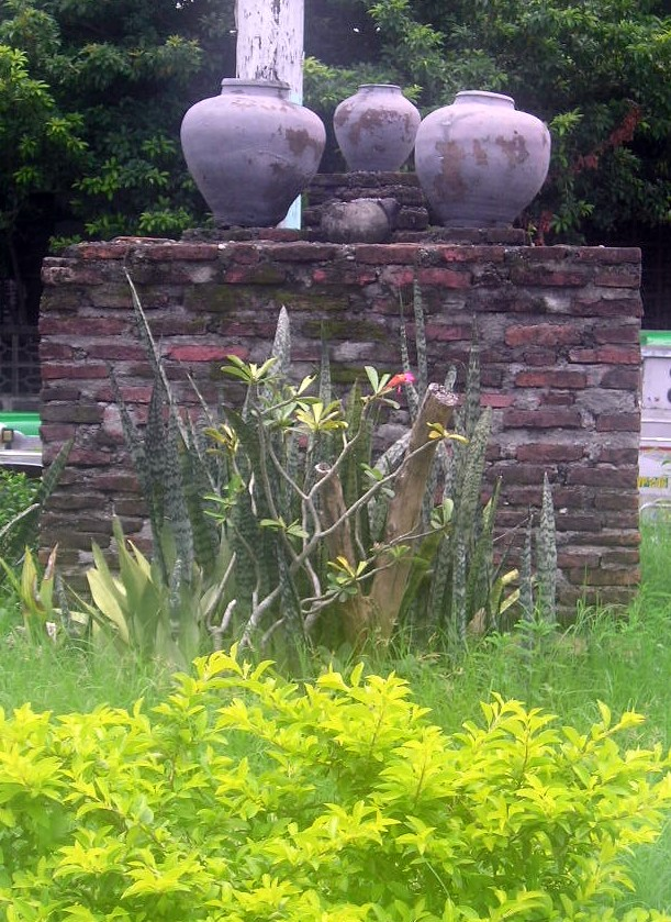 Piddig was the epicenter of the 1806-1807 Basi Revolt led by Pedro Mateo and Salarogo Ambaristo against the wine monopoly imposed by the Sapnish colonial government. Olympus Camedia (SWP North Luzon Cluster Consultations, June 2005). Slightly improved with Picasa.